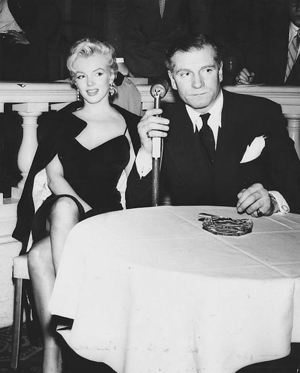 Photo of Marilyn Monroe and Sir Laurence Olivier. The photo was sent out to publicize the fact that they would be making a film together. The film had a working title of The Sleeping Prince, but was called The Prince and the Showgirl when it was released.